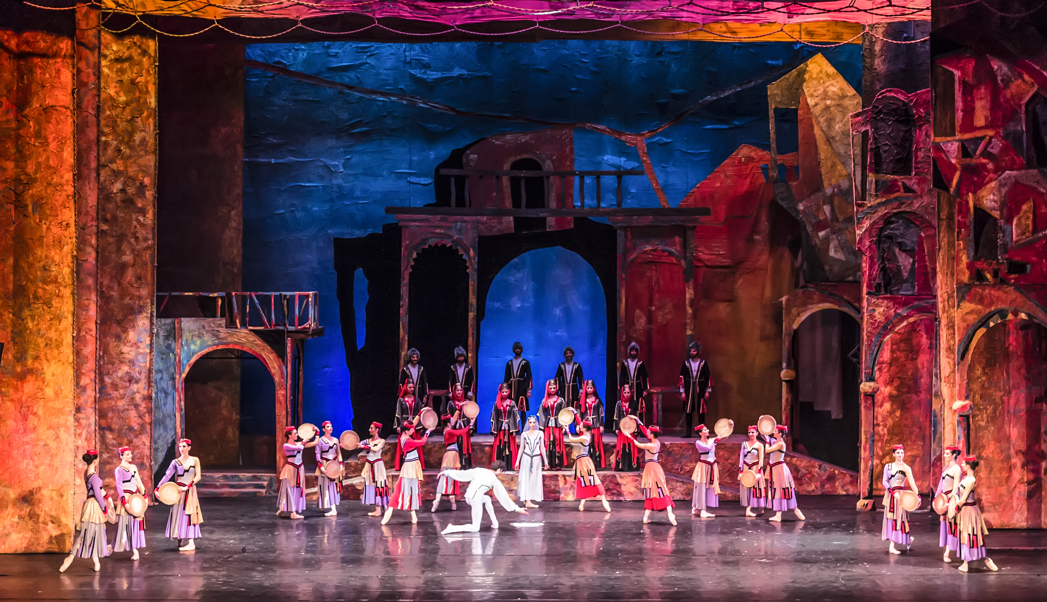 Gayane